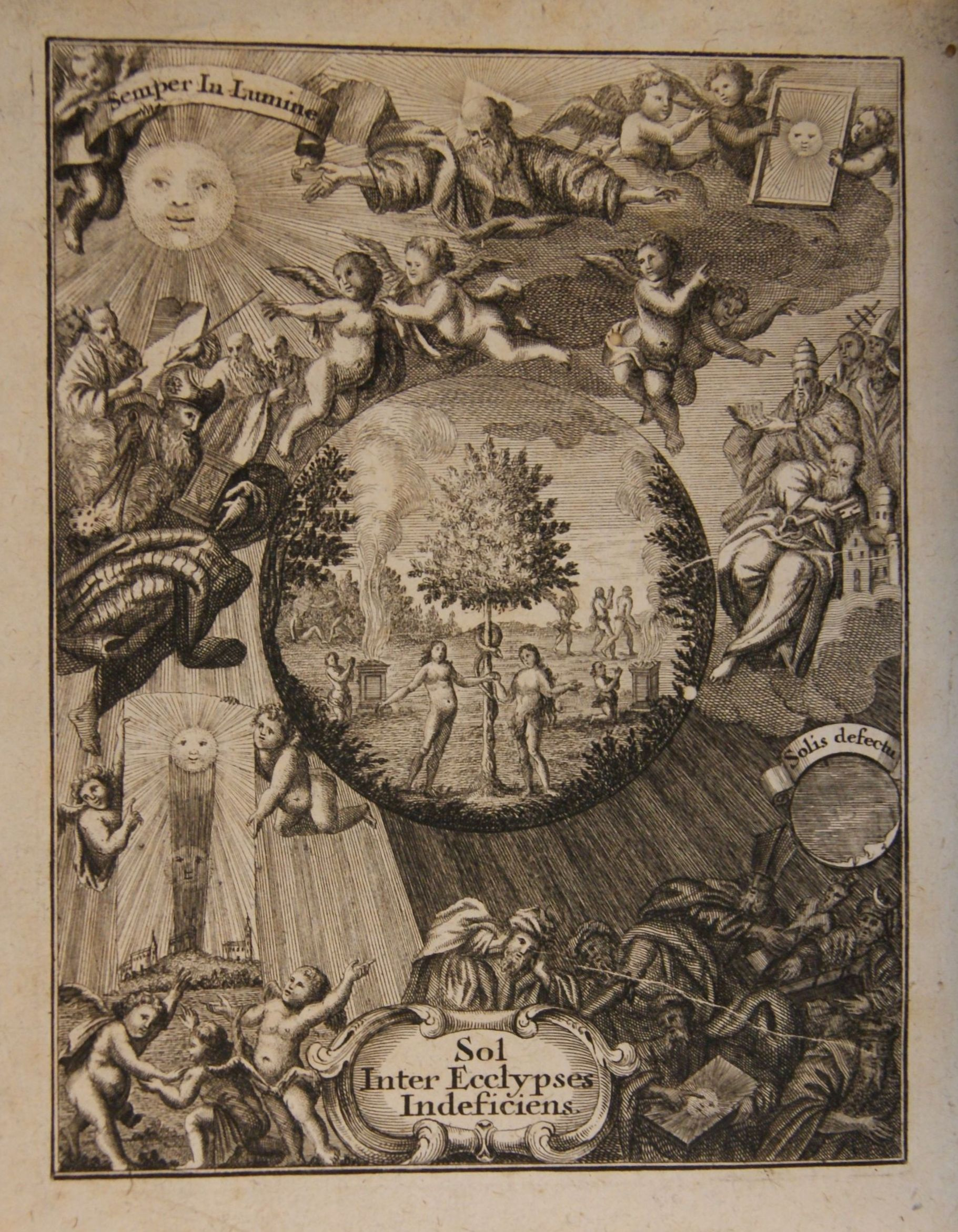 Detail of the frontispiece before the first page of the Book of Lucianus Montifontanus "Ecclesia Inter Ecclypses Indeficiens, Id Est, Incrementa Et Decrementa Verae Per Orbem Religionis A Condito Mundo Usque Ad Christum", 1th volume, 1709, edition photographed in the Vorarlberg State Library, Sig. VA Lucia 1709/1.